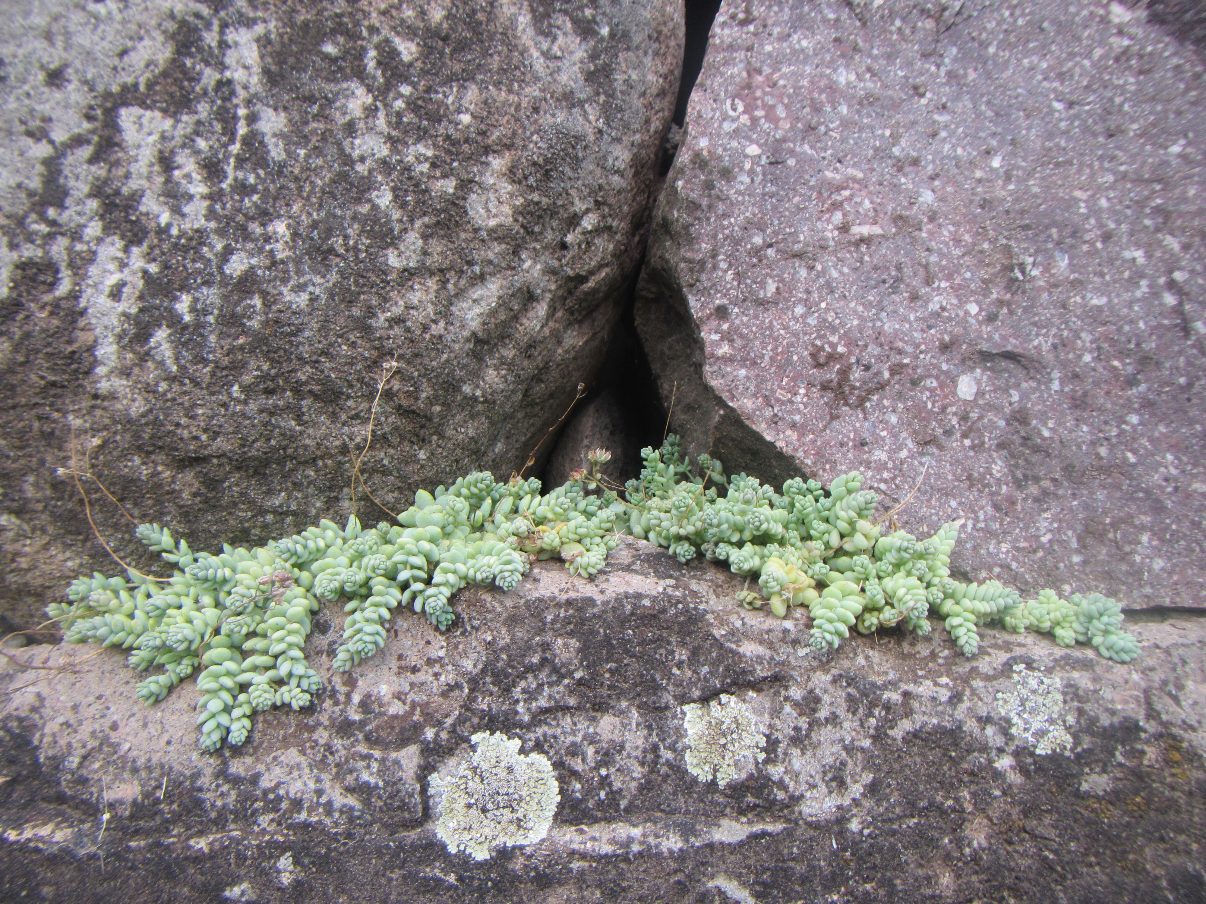 A plant of Sedum dasyphyllum on a wall near Piazzo, Segonzano